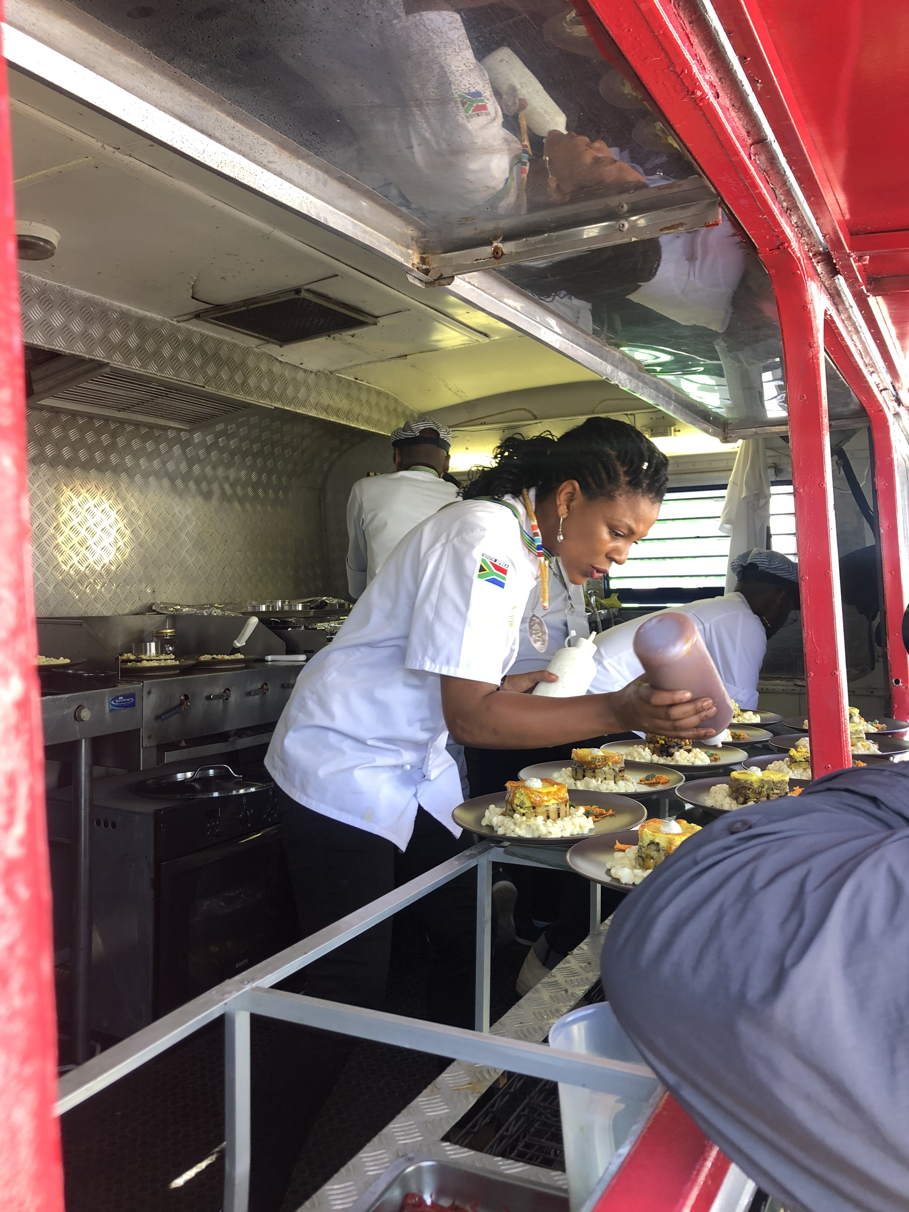 Аҧсшәа: Life is a story